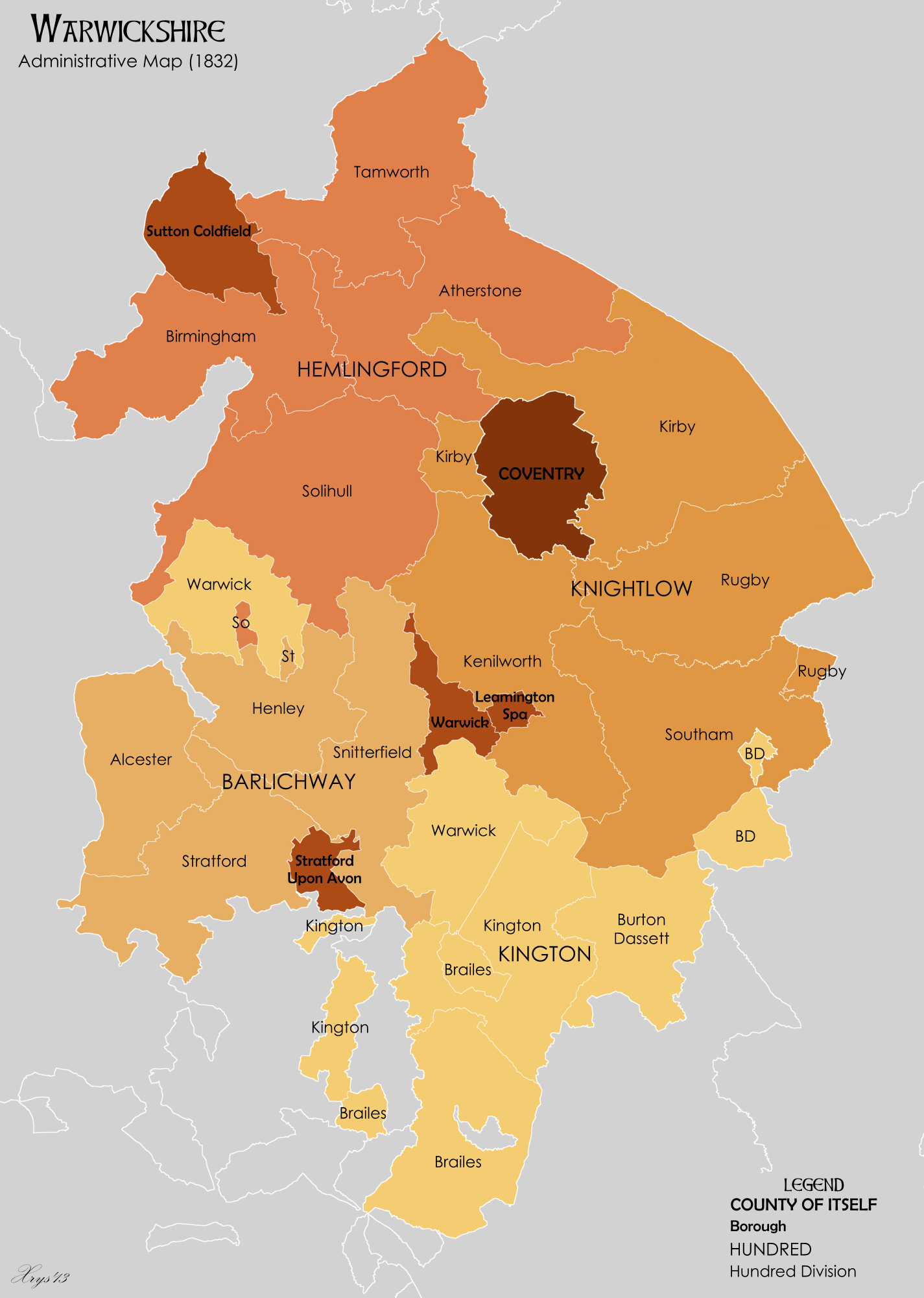 Administrative map of the ancient county of Warwickshire in 1832. Showing Hundreds, Hundred Divisions, extant Boroughs and the County of the City of Coventry. Hundred boundaries from University of Nottingham English Place Name Society. Source data for parish boundaries - Kain, R.J.P., and Oliver, R.R. (2001) "Historic parishes of England and Wales". Unit names from Vision of Britain website.